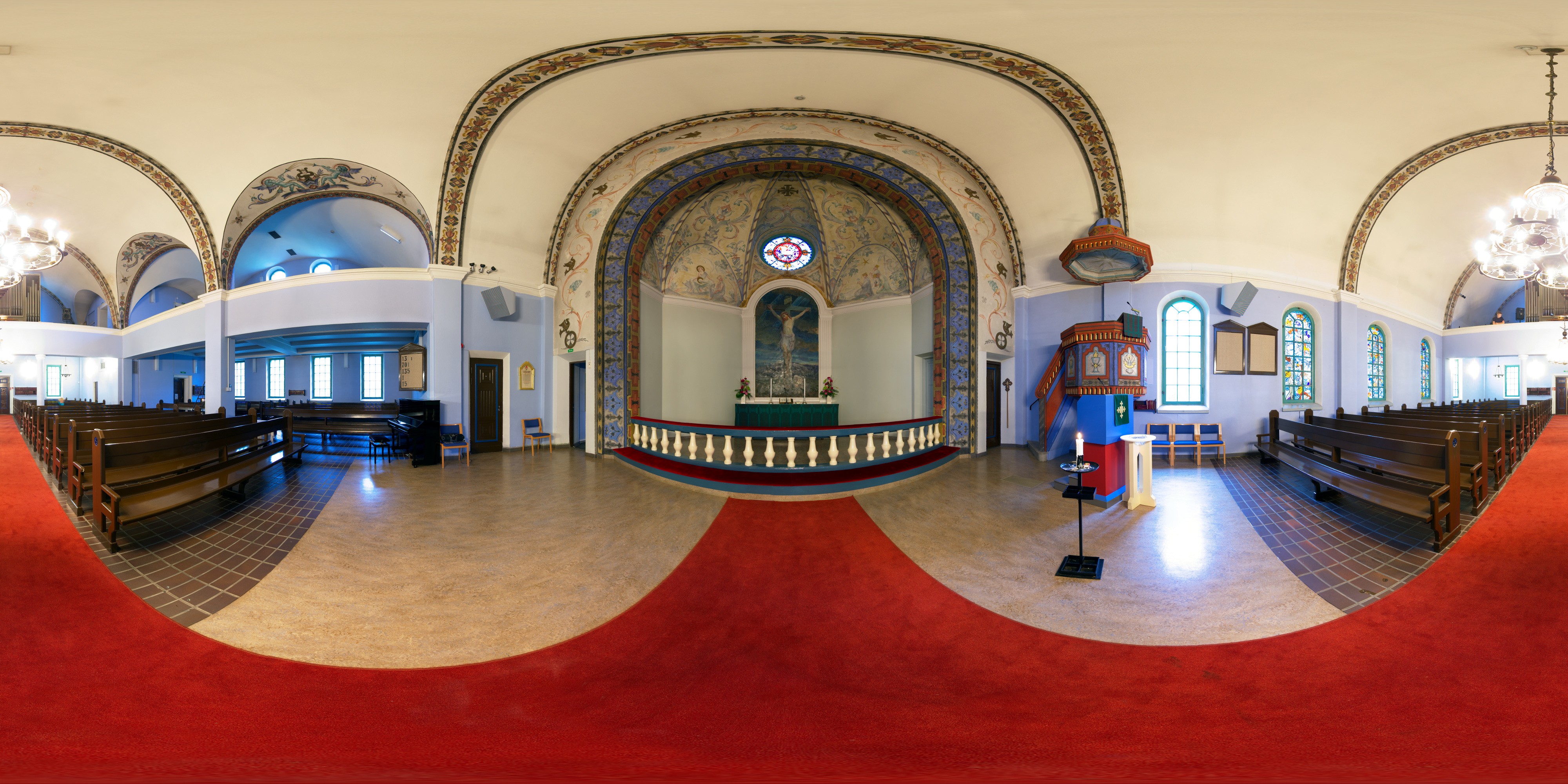 Interior of evangelical lutheran church in Siilinjärvi, Finland. 360x180 degree panorama. Taken with Nikon D40 and stitched with Hugin.